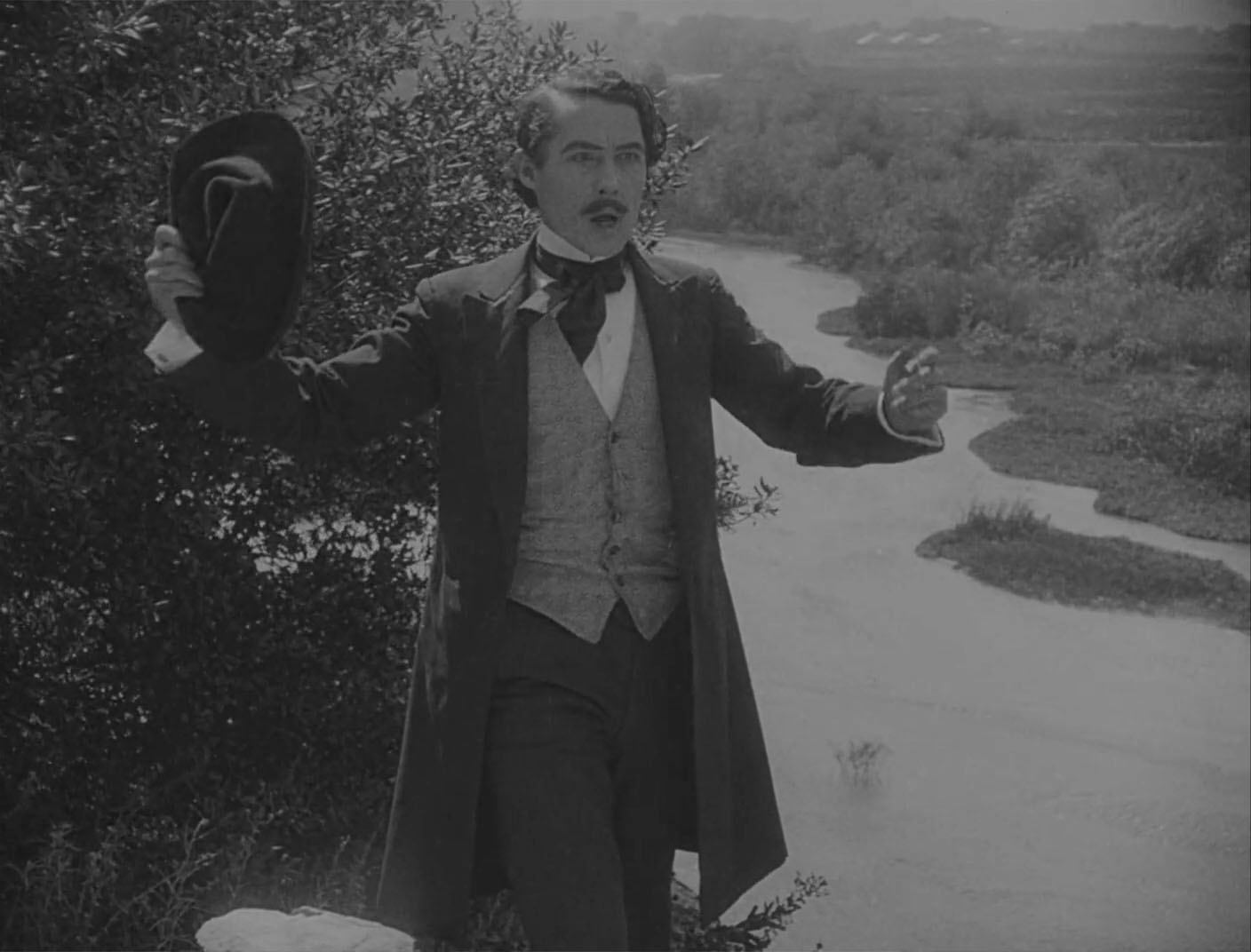 Scene from the movie Birth of a Nation. 1915.